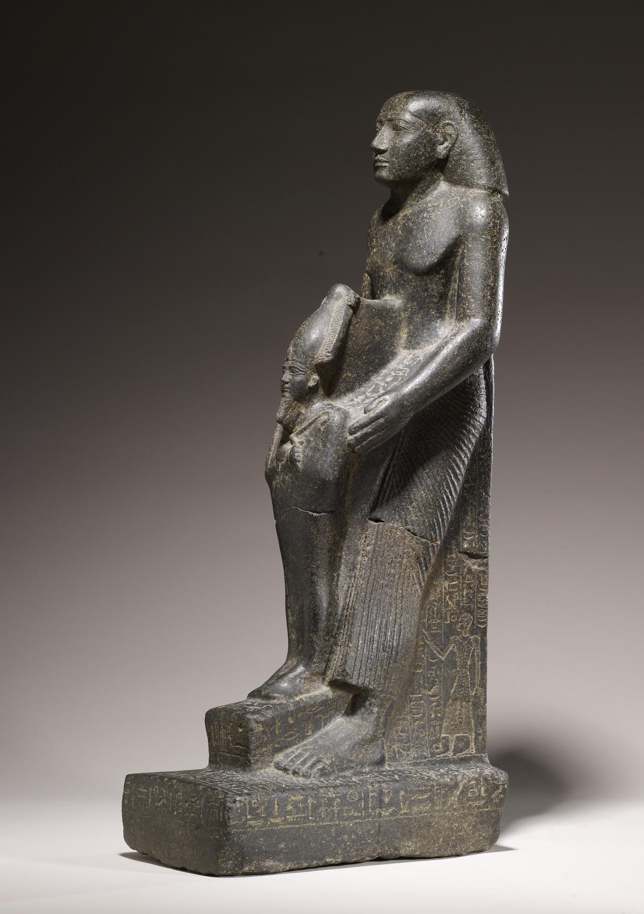 Statues such as this were placed in temples and show the owner presenting a divine image to his god. This statue represents Djed-khonsu-iuef-ankh, a priest of the god Montu of Thebes. He holds a statuette of Osiris, god of the underworld. Priests cared for cult images of the gods by cleaning and clothing them, as well as, offering them daily food and drink. The inscriptions on this statue indicate that it was placed in the Temple of Montu at Karnak and was dedicated on behalf of Djed-khonsu-iuef-ankh by his son, Khonsu-mes. The owner of such a statue benefited during his life, but also after his death, from the rituals for the god with whom he is represented.